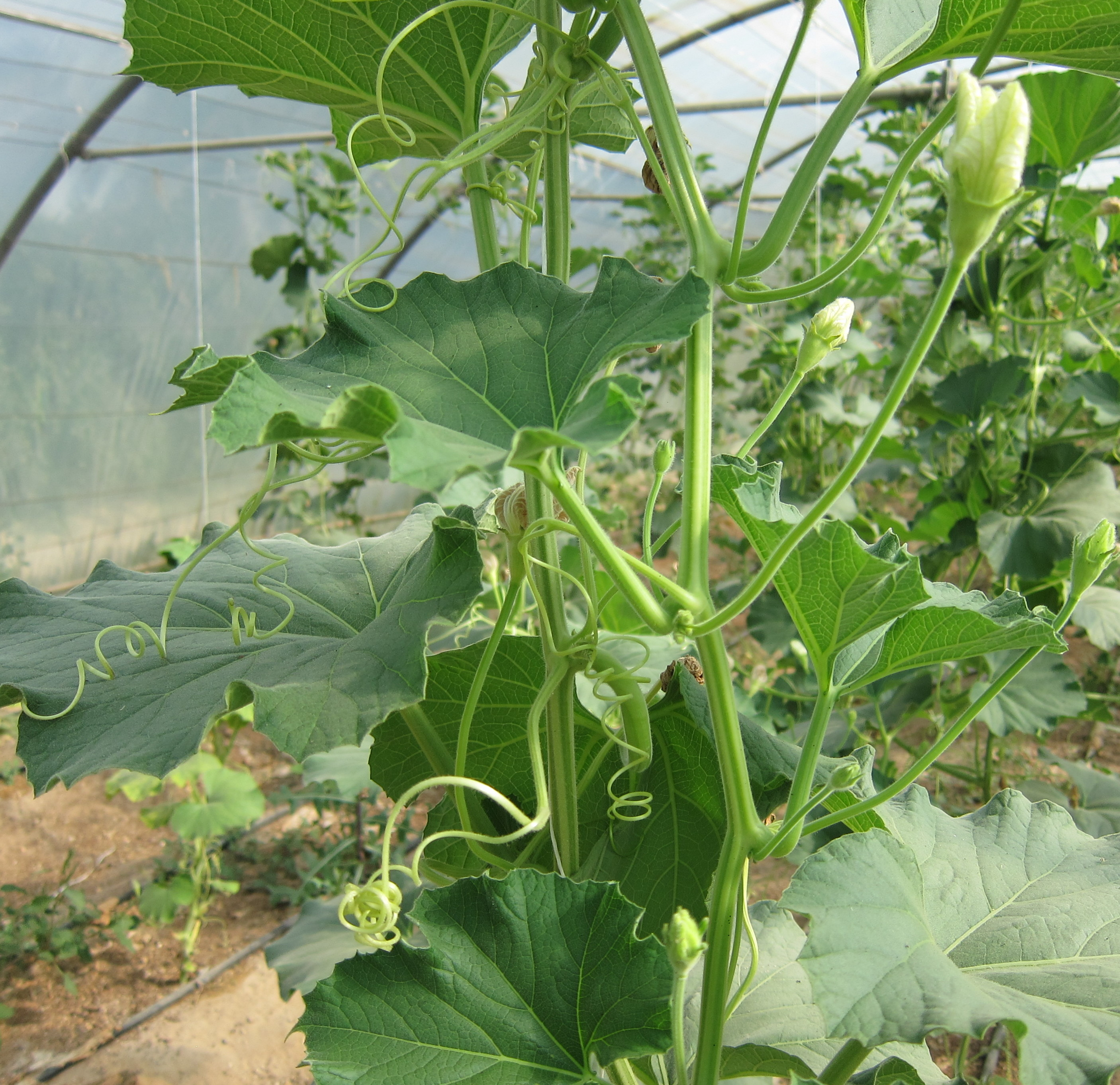 Bottle gourd Cucurbetaceae family ചുരക്ക ചുരങ്ങ ചെരവക്കായ